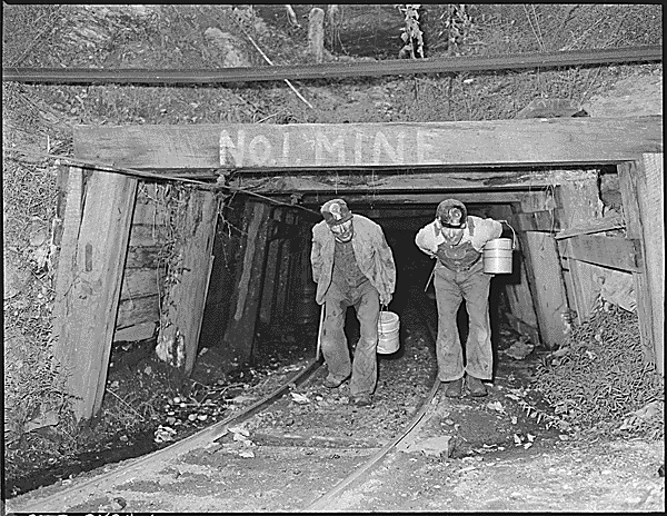 Workers exiting the PV&K's Clover Gap Mine near Lejunior, Kentucky, USA. Caption: "Blaine Sergent, left, comes out of the mine at the end of the day's work. P V & K Coal Company, Clover Gap Mine, Lejunior, Harlan County, Kentucky., 09/13/1946." ARC identifier: 541293.